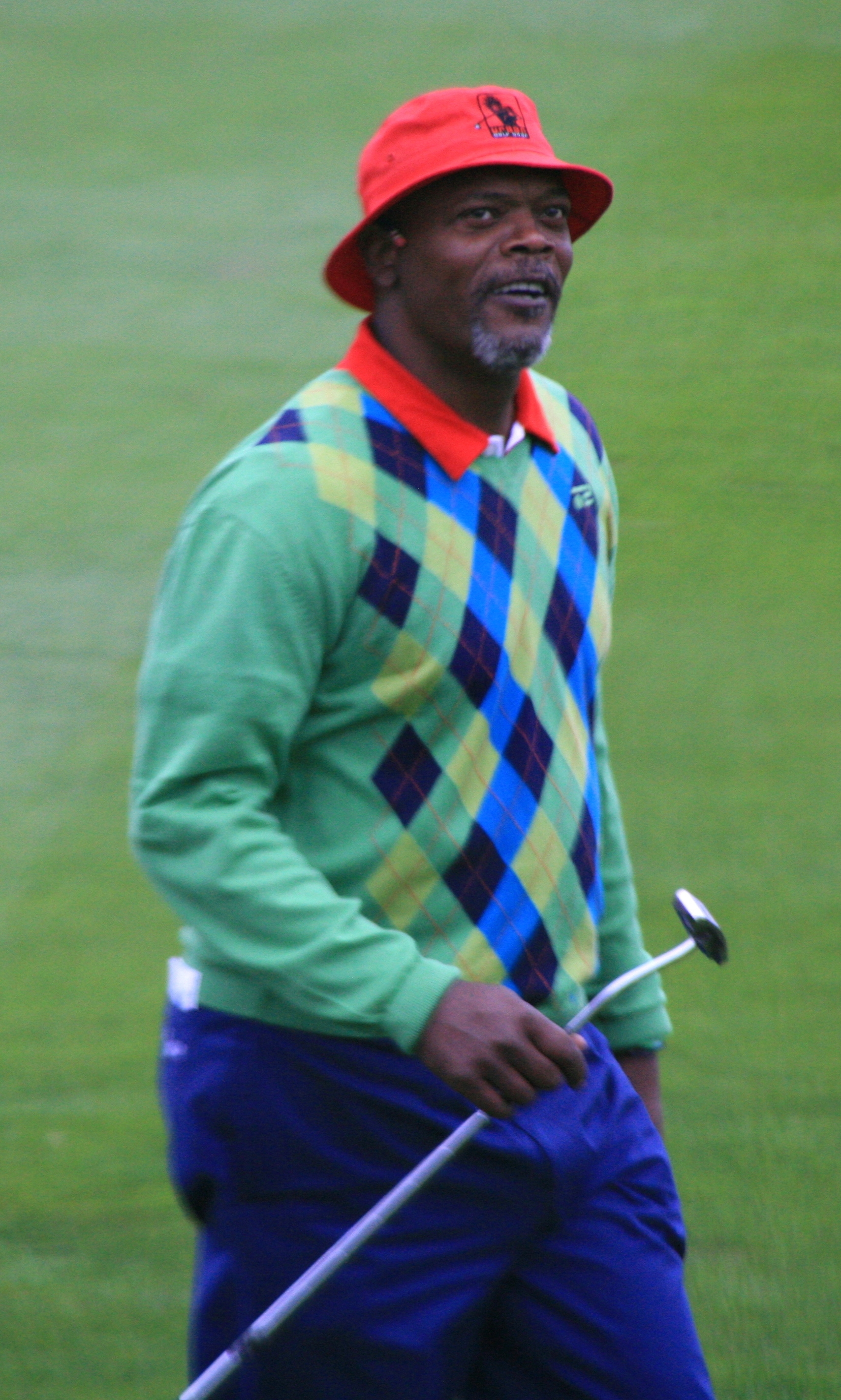 Photo of actor Samuel L. Jackson at the 2006 Pebble Beach Pro-Am Tournament.